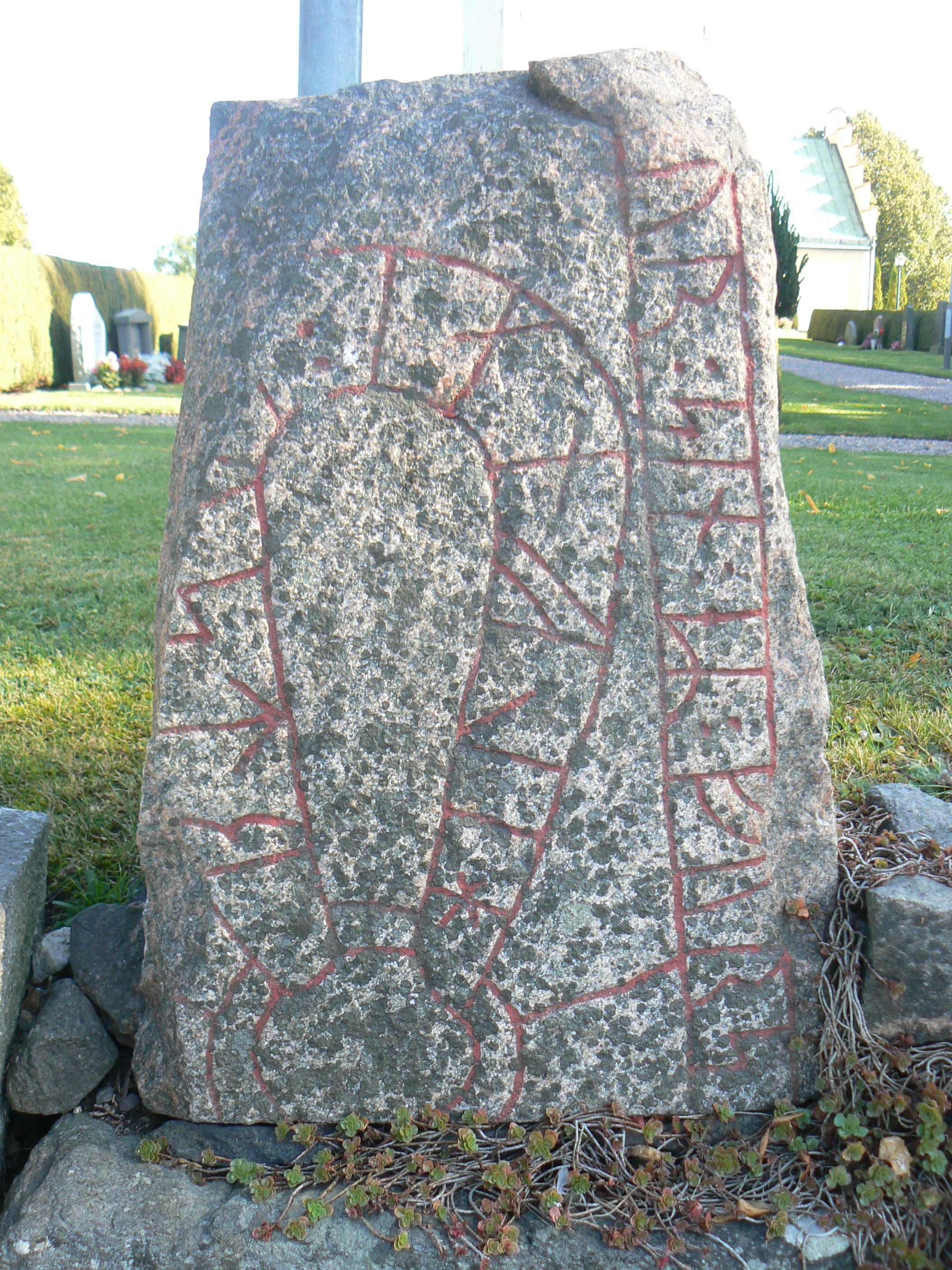 Runestone Ög 145 at Dagsberg church east of Norrköping, Sweden.